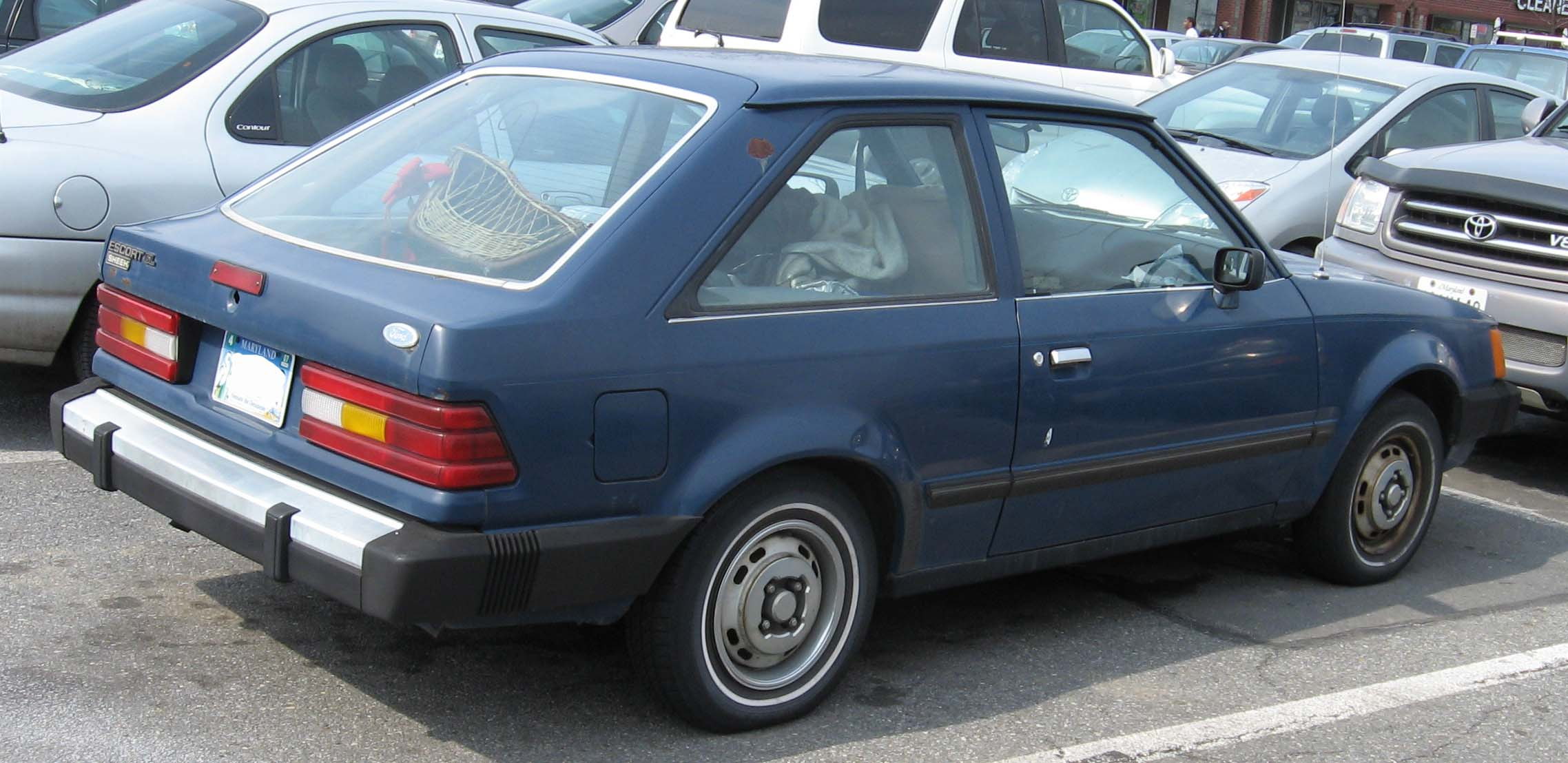 1986-1987 Ford Escort photographed in USA.